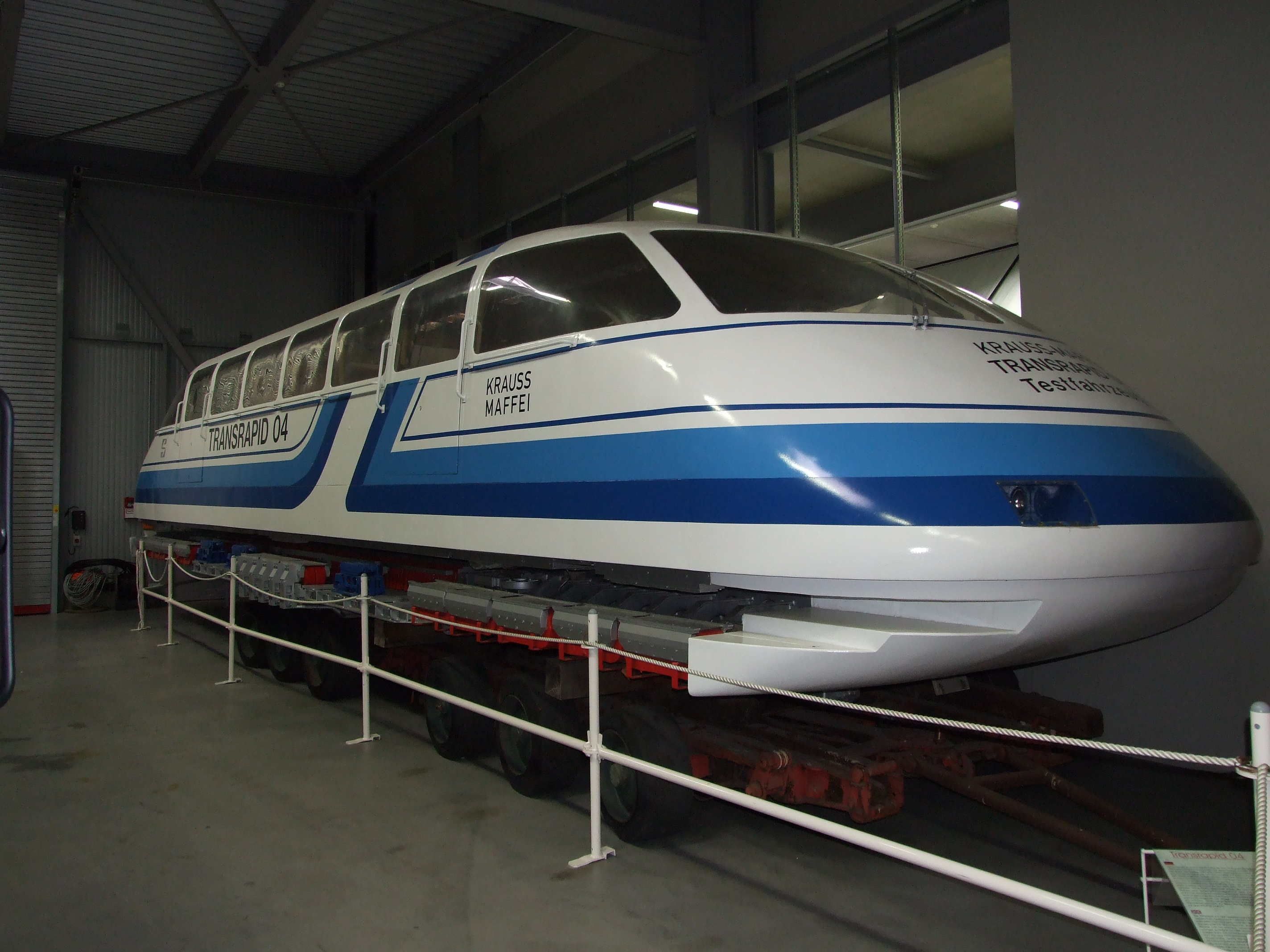 Transrapid 04